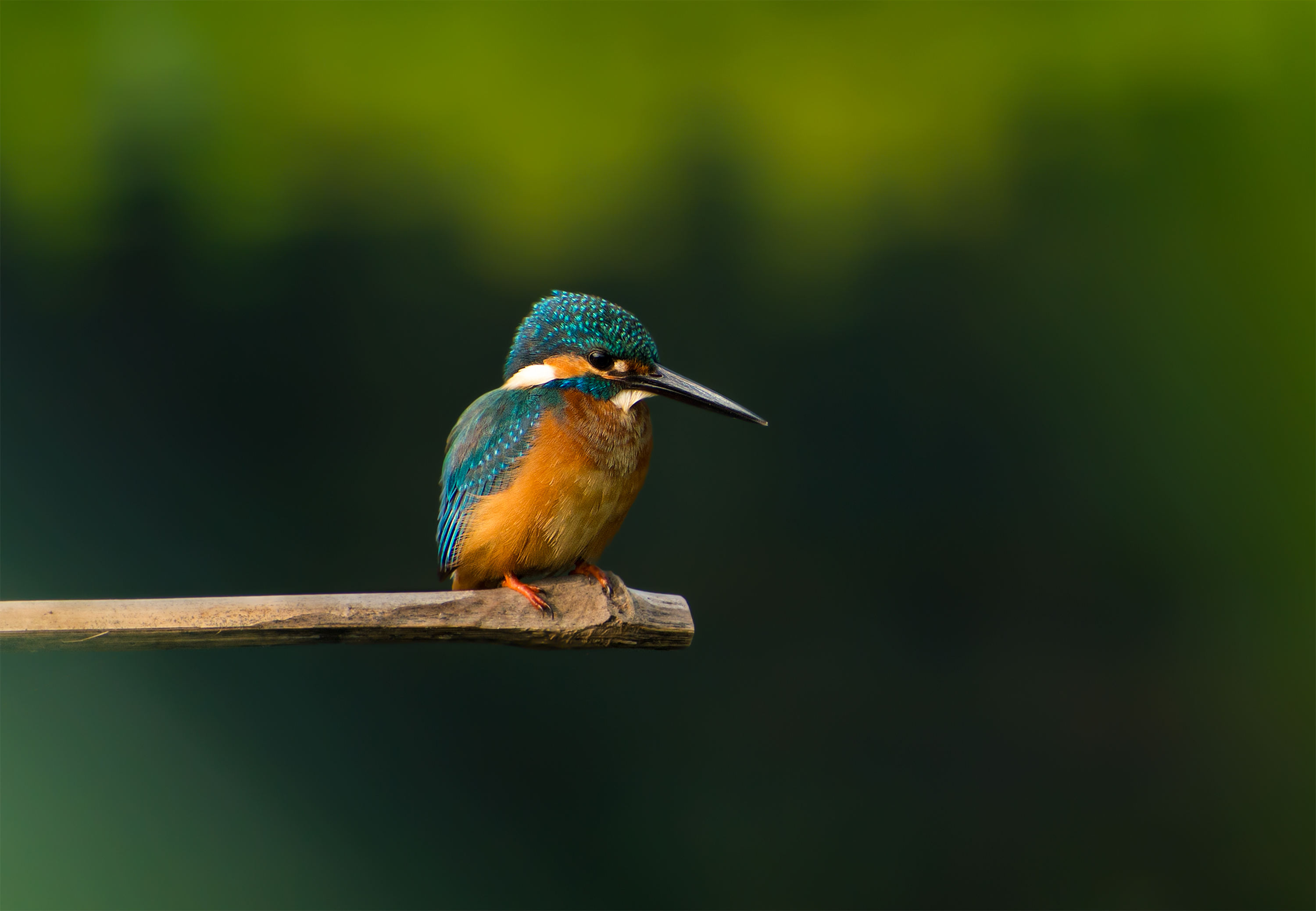 Rufous-collared kingfisher (Actenoides concretus) at National Botanical Garden of Bangladesh